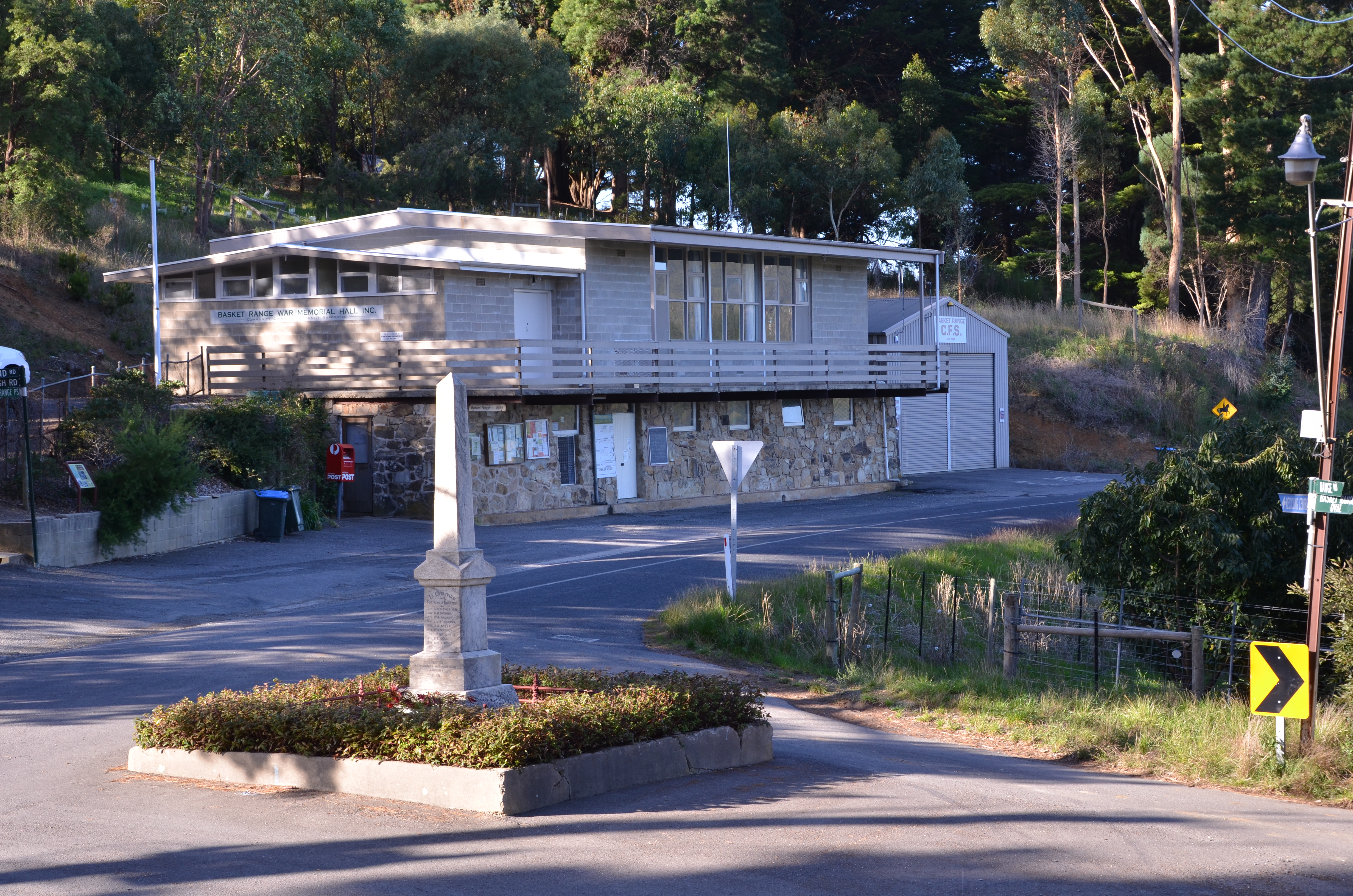 Township of Basket Range, South Australia. The World War I monument is in the foreground, Basket Range Memorial Hall and CFS station is further back